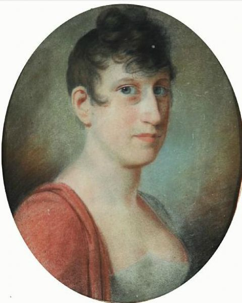 Portrait of Juliane Marie von Jessen